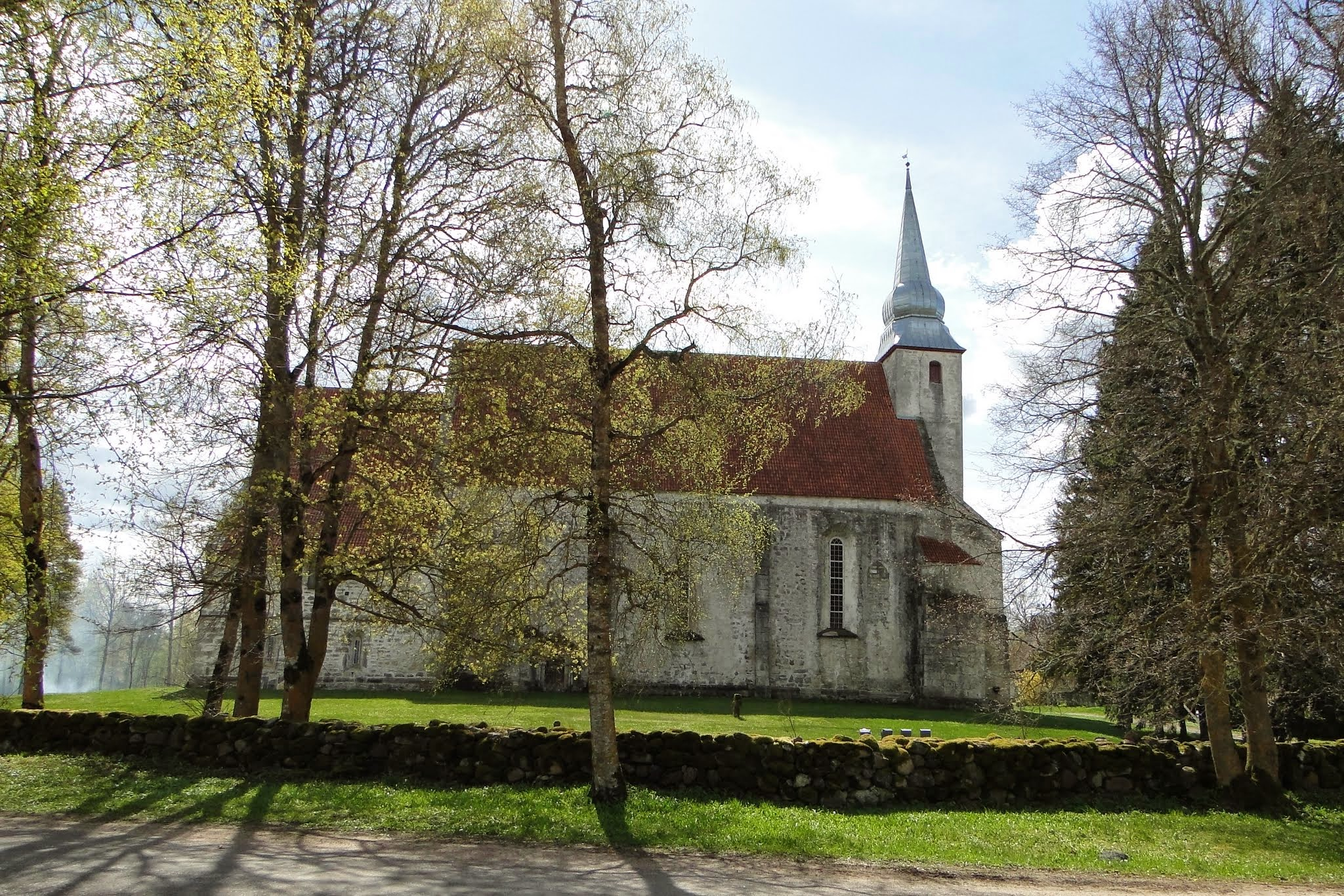 Kaarma church